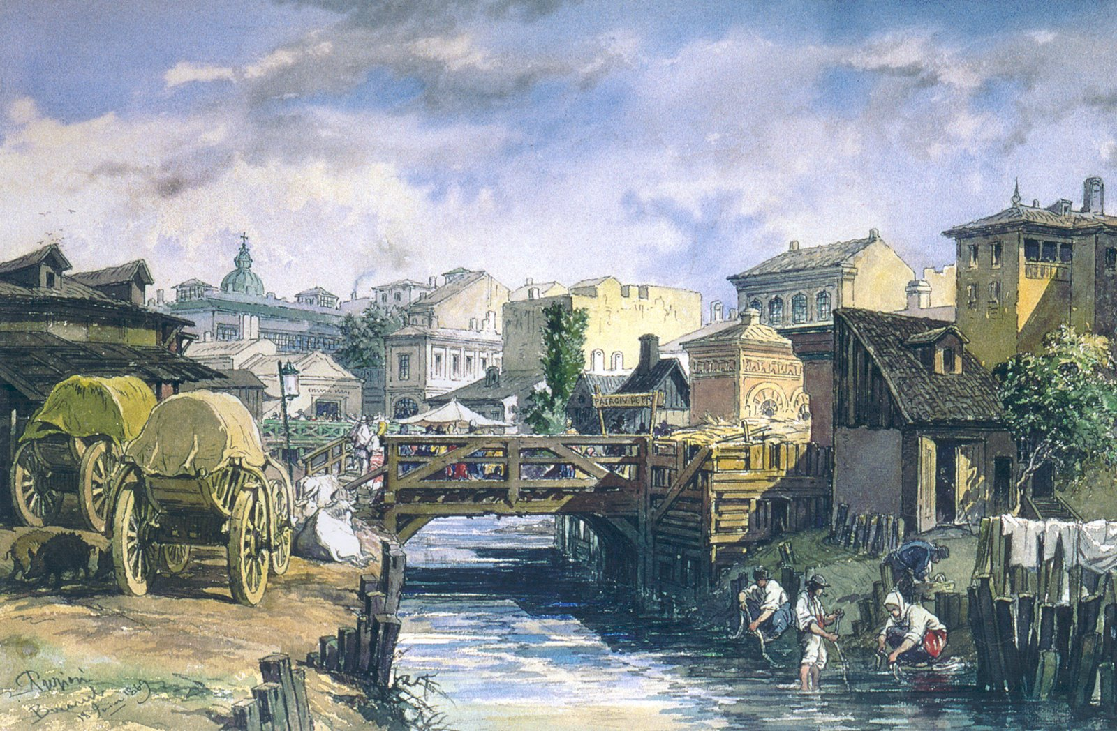 Dâmboviţa, an aquarelle by Amedeo Preziosi some sources claim it's Bucureştioara, but see this analysis